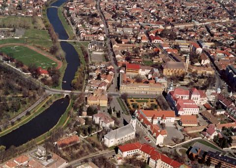 Szentes, Hungary, aerialphotography